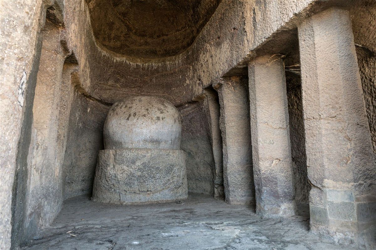 Bhutalinga Chaitya inside